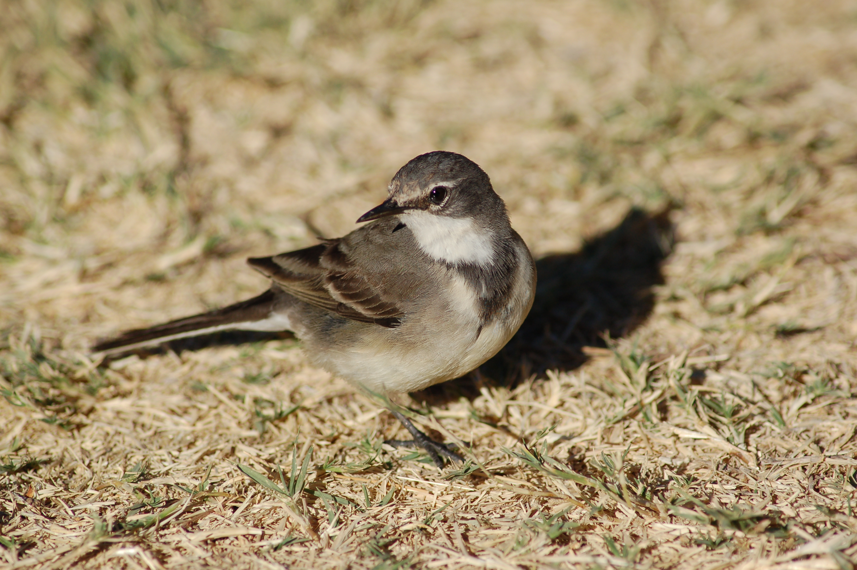 A Cape Wagtail in Fish River Canyon, Namibia.